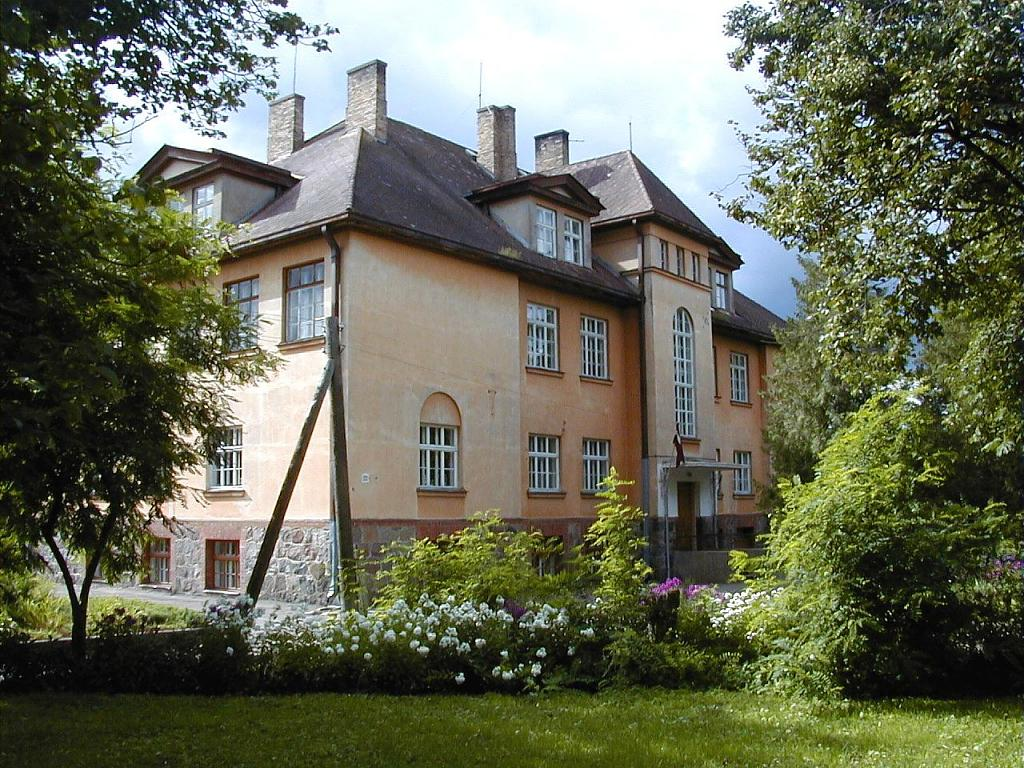 Medumi Secondary School in 2001 (before renovation)